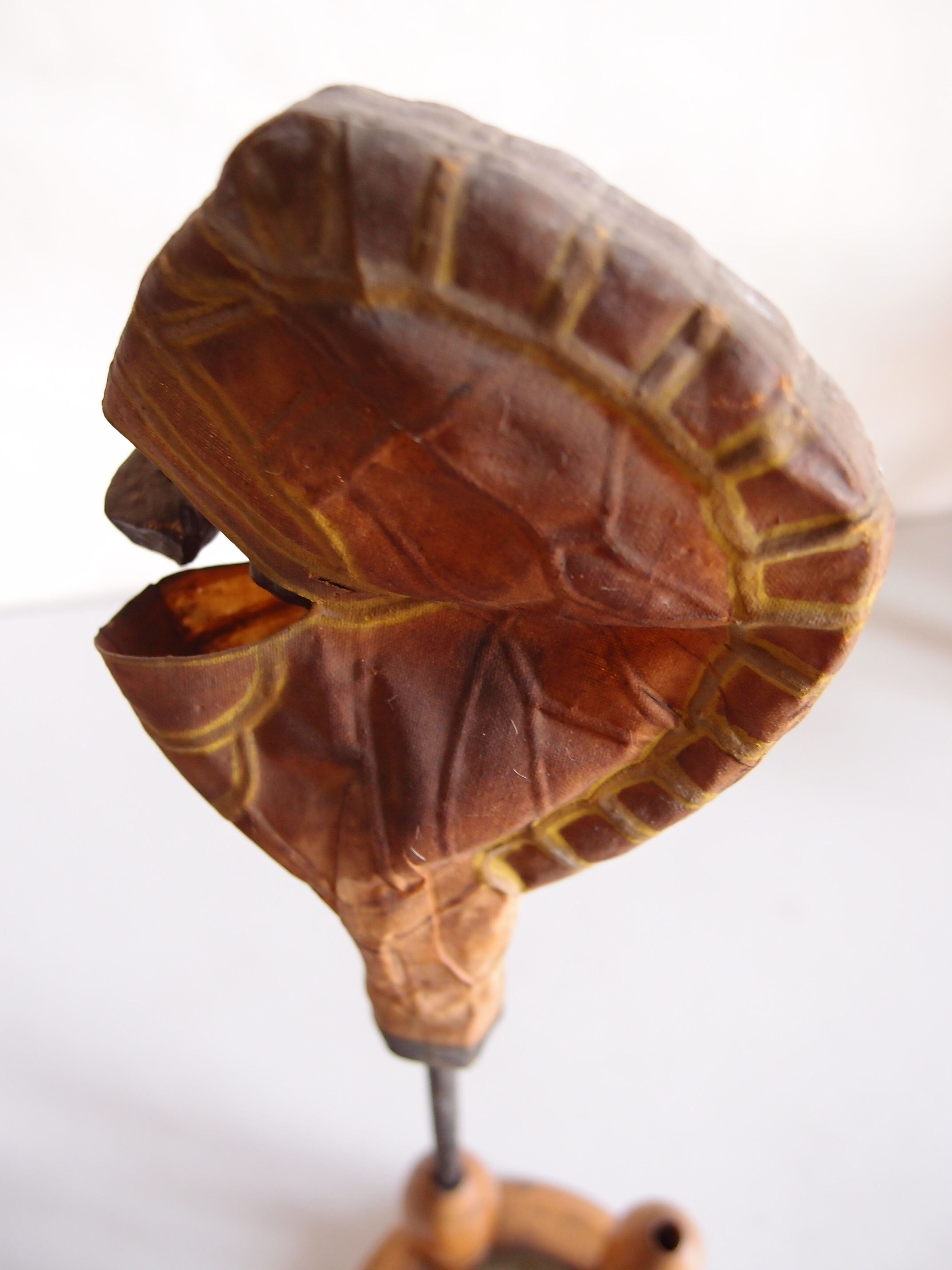 Model from the collection of the Botanical Museum in Greifswald, Germany. . see also for more information on the models